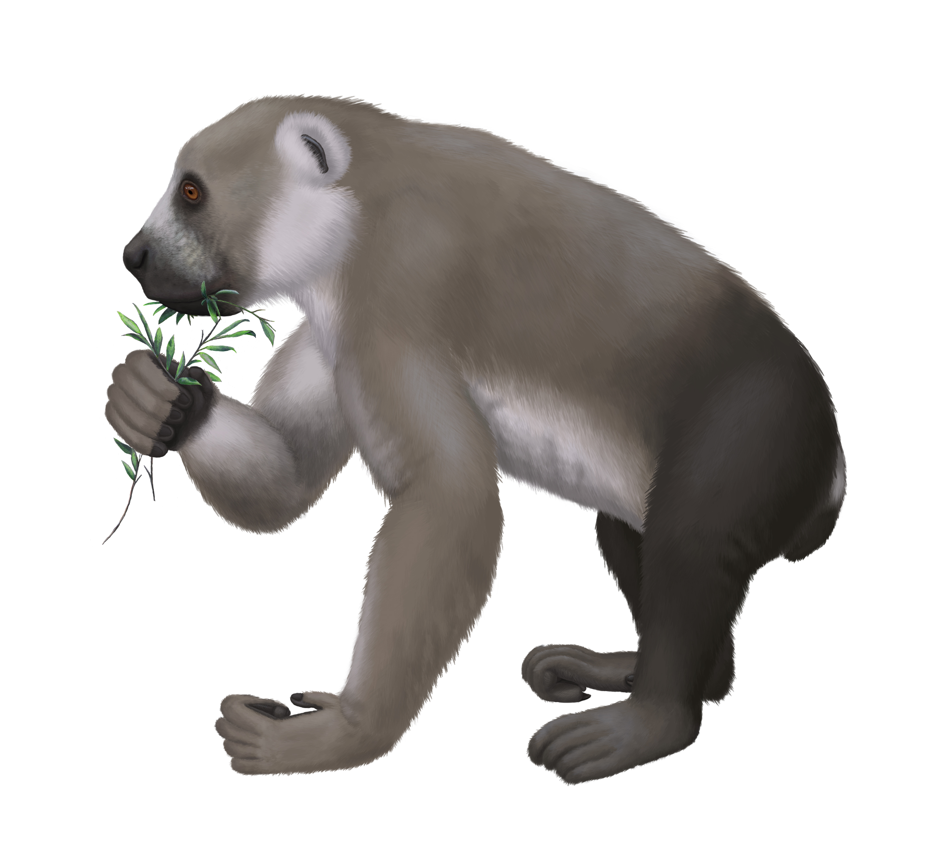 Life restoration of Archaeoindris fontoynonti. Based on life restoration by Stephen Nash in Lemurs of Madagascar, 3rd edition, and correspondence with Dr. Laurie Godfrey.